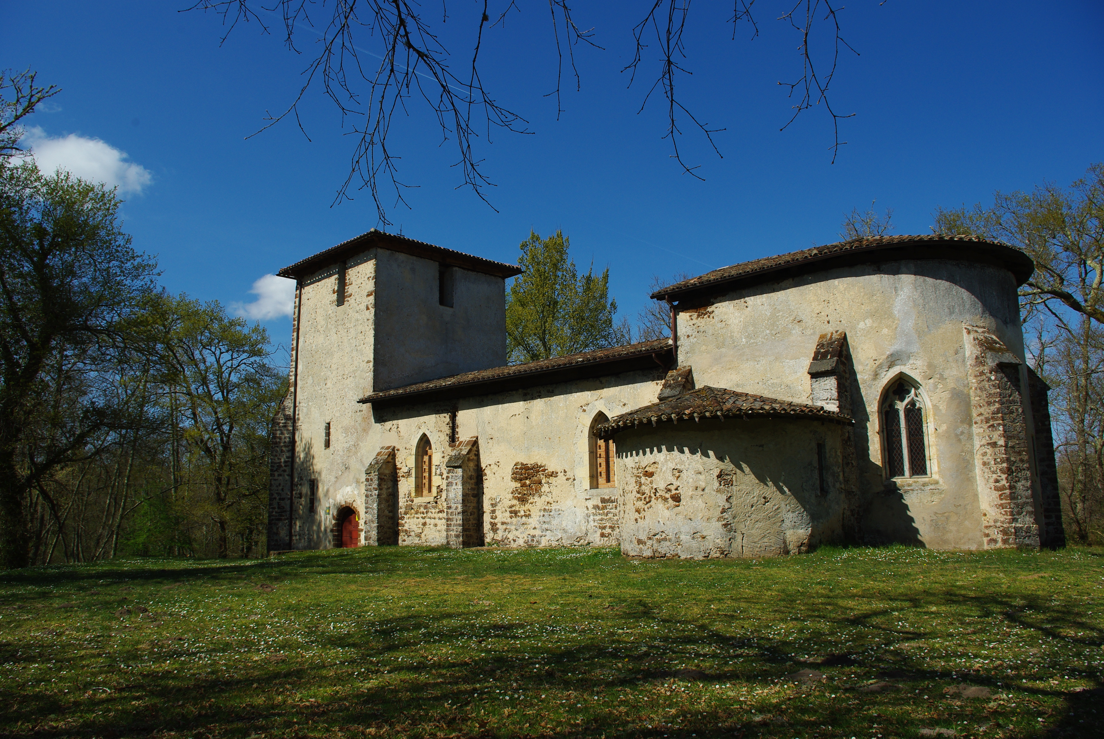 Vieux Lugos church (gironde, france). Build on XI